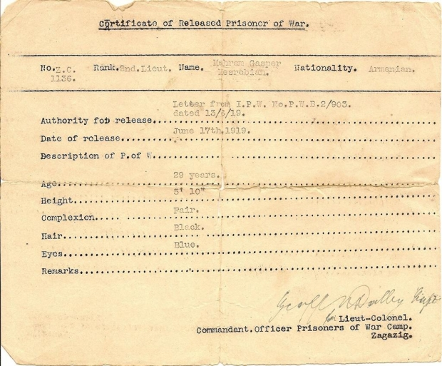 Mihran Mesrobian (10 May 1889 – 21 September 1975) was an Armenian-American architect whose career spanned over fifty years and in several countries. Mesrobian was then transferred to the Russian front in the winter. The journey to the front was covered with heavy snow. Thereafter, Mesrobian's battalion was transferred to the Palestinian and Syrian front to combat Arab forces. In the fall of 1918, during an offensive spearheaded by British forces with the assistance of the Arabs, most members of 4th Army Corps of which Mesrobian was attached to had been captured by the Arabs. But Mesrobian managed to flee and was left wandering for several days. While in Palestine, he was ultimately captured by the Arabs and was imprisoned in Egypt from late fall 1918 to May 1919.Mesrobian and his unit were then sentenced to death by their Arab hostage-takers. However, T.E. Lawrence, who is better known as Lawrence of Arabia, happened to be in the area and was able to intervene to save their lives. Mesrobian was subsequently confined in the Zagazig prison runned by the British forces. was released as a prison of war on 17 June 1919.